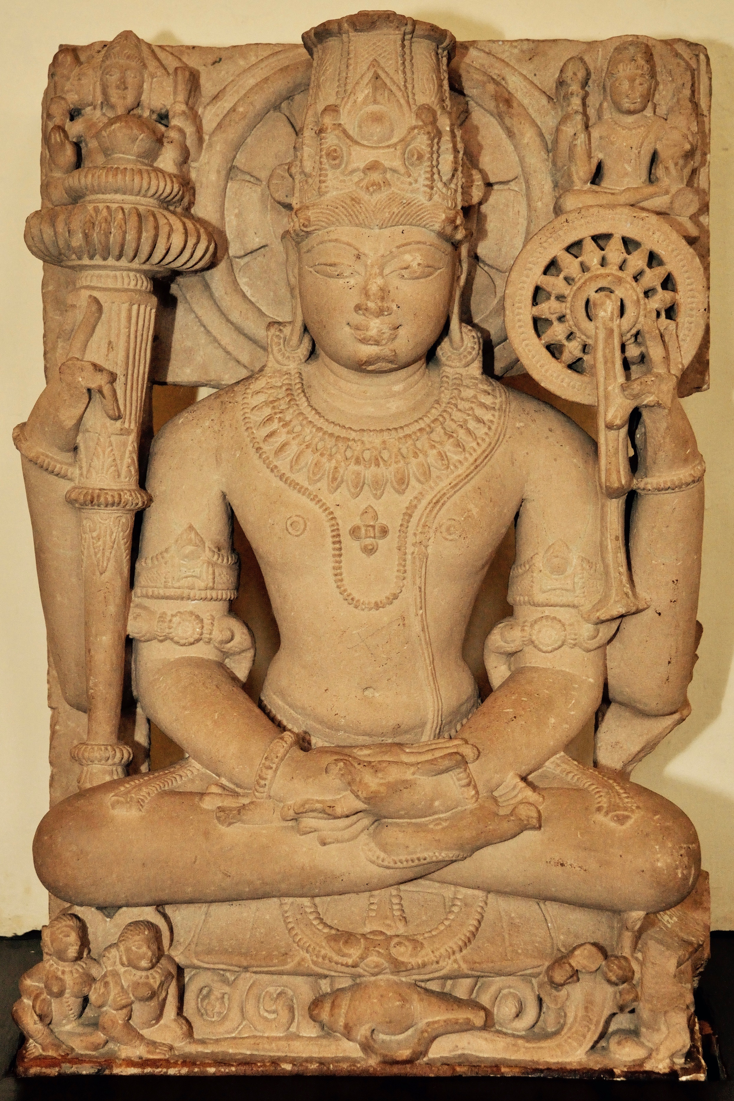 This artefact resides at the Government Museum, (hi: Rashtriya Sangrahalaya) formerly The Curzon Museum of Archaeology, Museum Road or Murari Lal Rajpal road, Dampier Nagar, Mathura, Uttar Pradesh, India. This museum is administrating by the State Government of Uttar Pradesh of India.